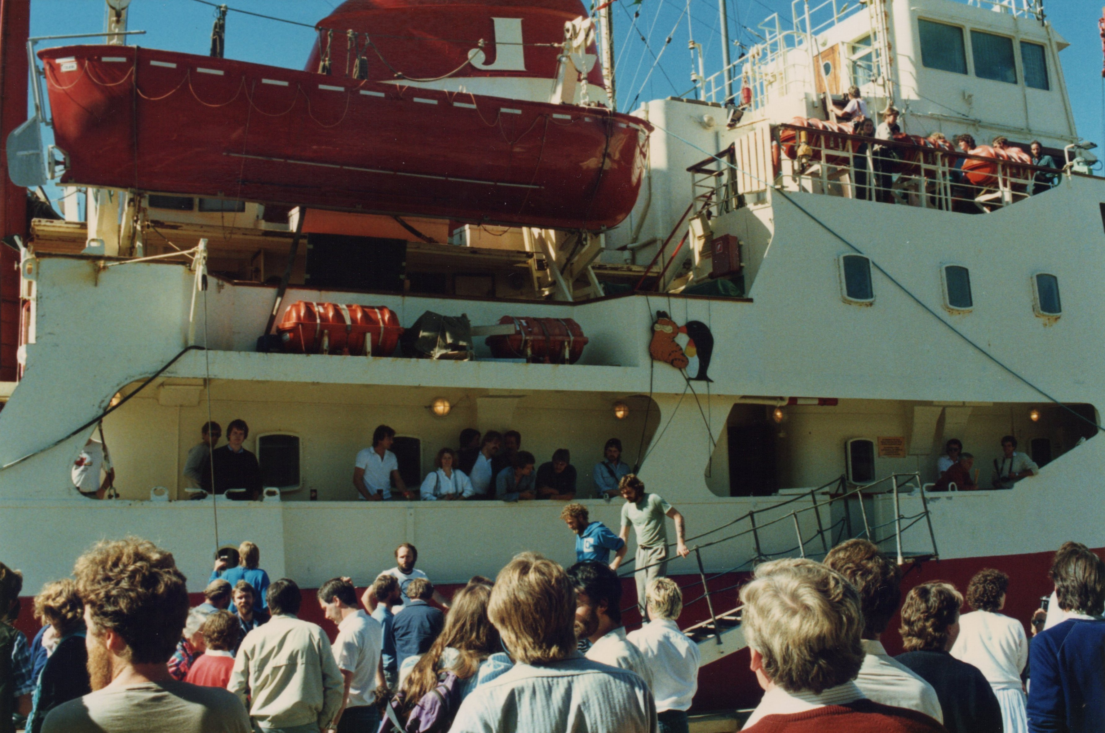 The Australian Antarctic research vessel "Nella Dan" leaving Hobart, 1987 (2) (Tony Rees photograph)